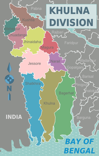 Colour-coded map of the districts of Khulna Division in Bangladesh (Wikivoyage regional scheme), English version